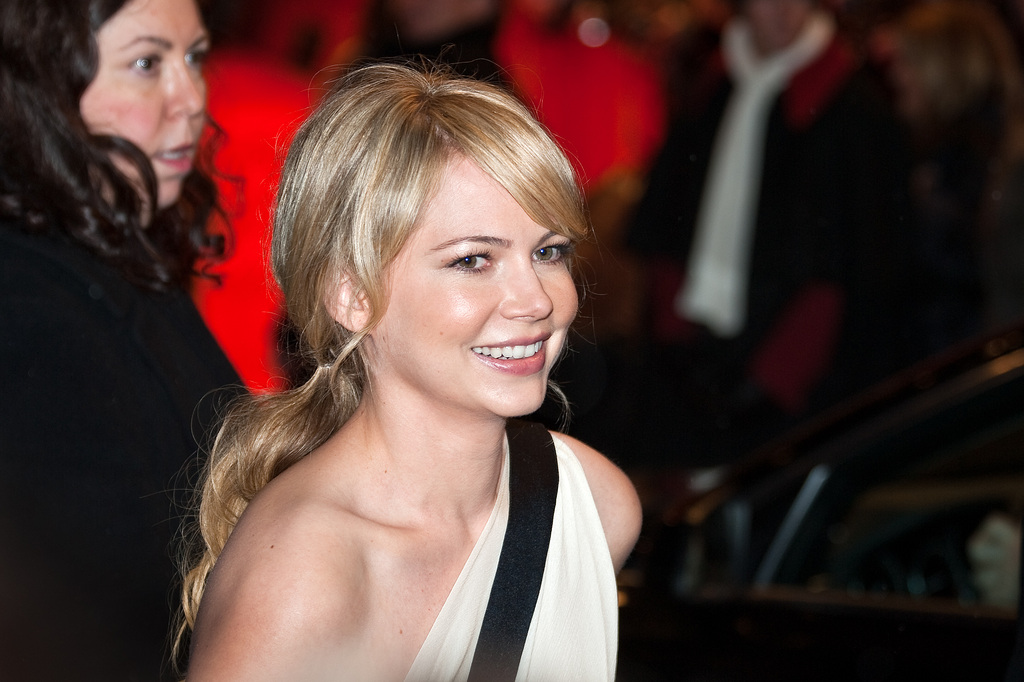 American actress Michelle Williams at the premiere of the film Shutter Island at the 60th Berlin International Film Festival.